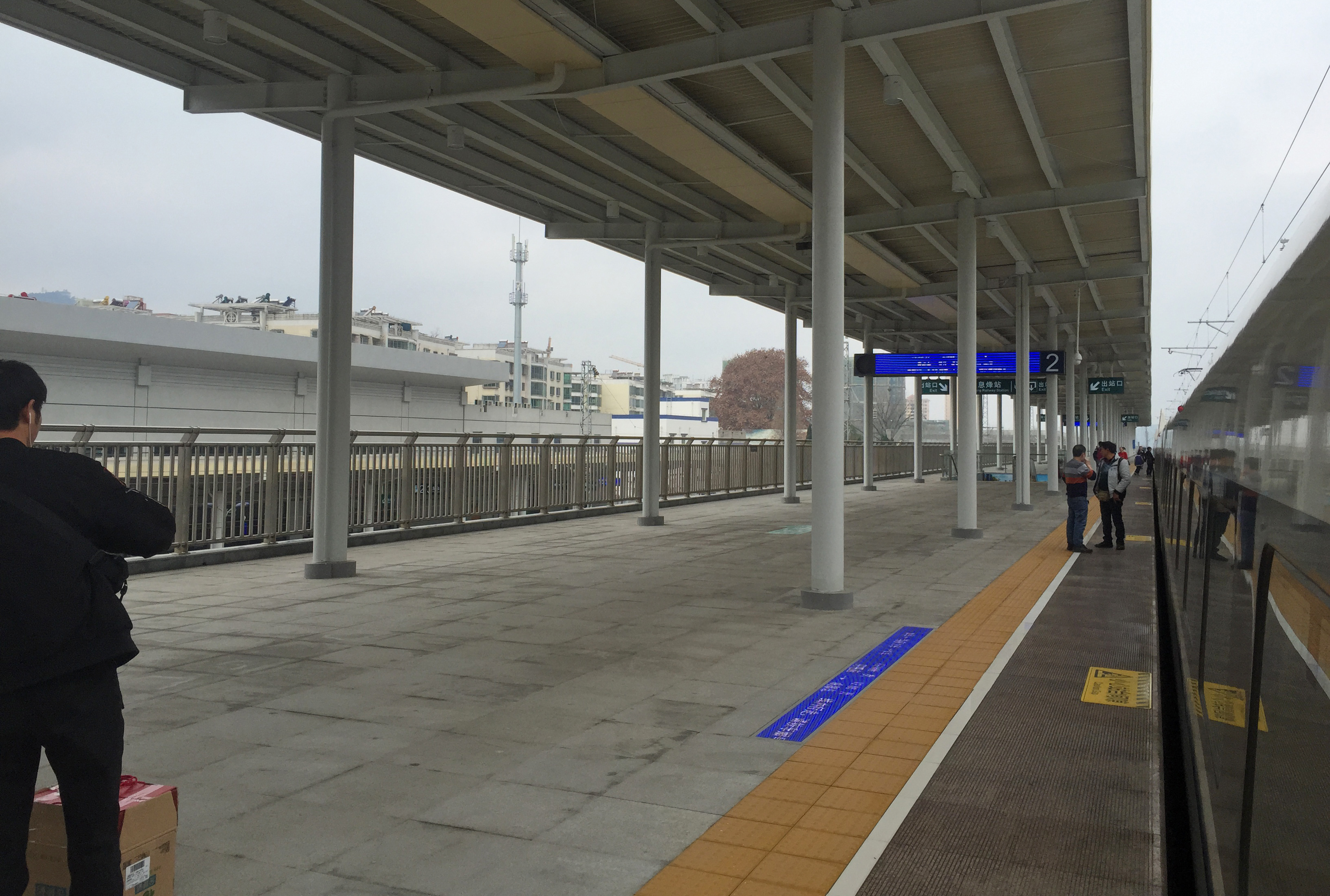 Old line on 1F, new line on 2F?